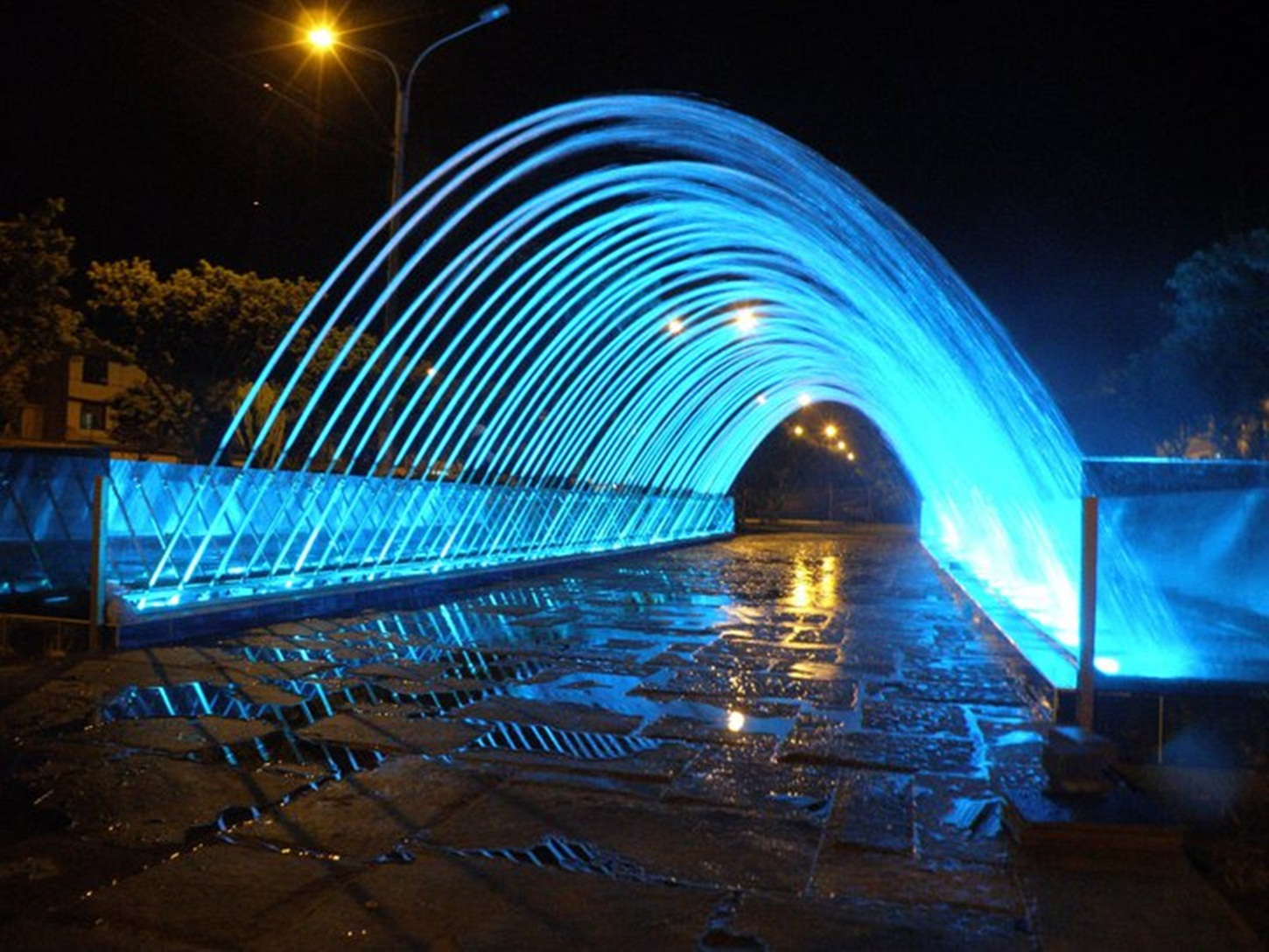 Tunel De Los Deseos en Víctor Larco, Trujillo-Perú